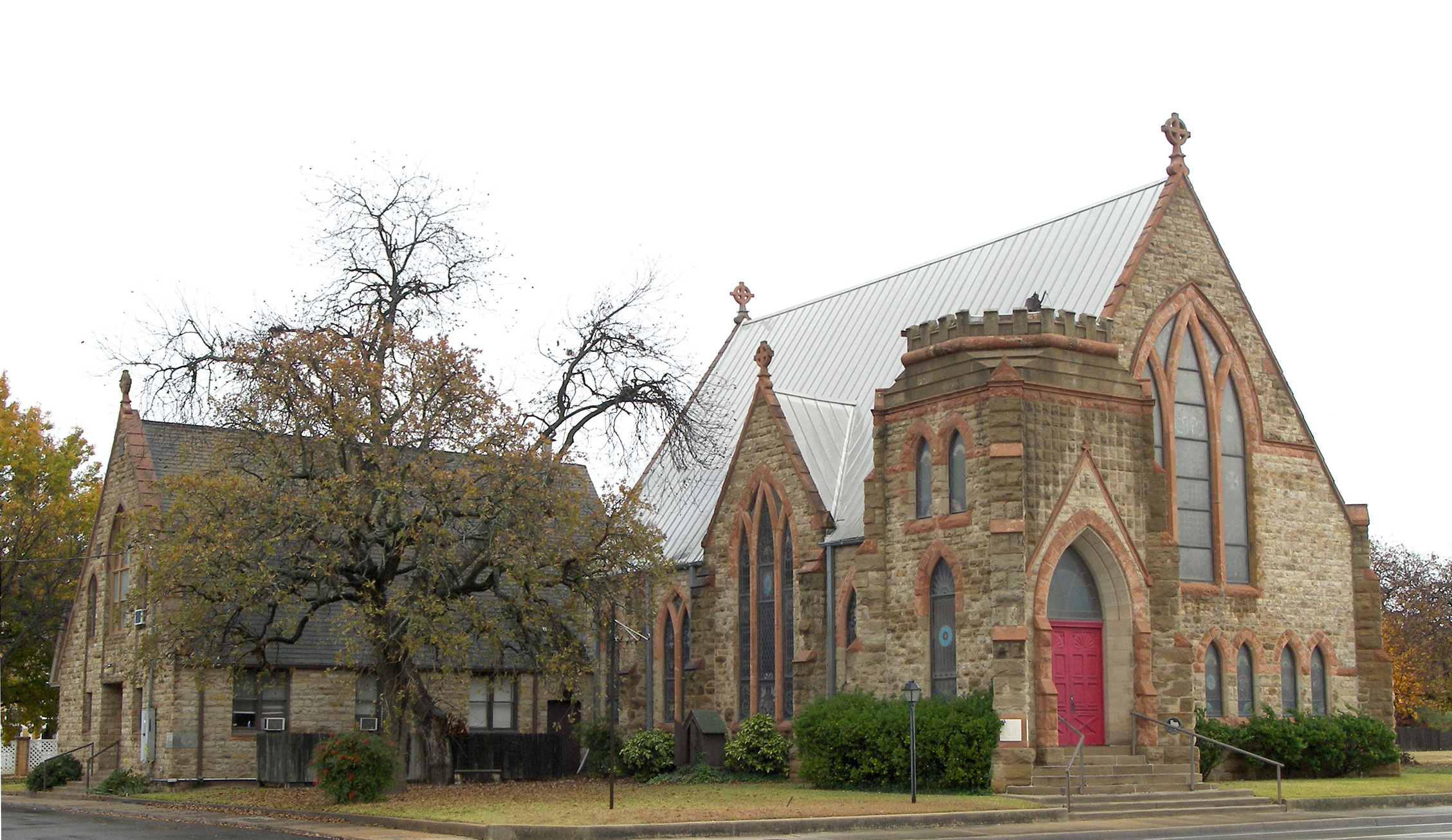 St. John's Episcopal Church at 700 Main Avenue, in Brownwood, Texas, United States. The stone Gothic Revival Style church was built in 1892. It was listed on the National Register of Historic Places on September 4, 1979.